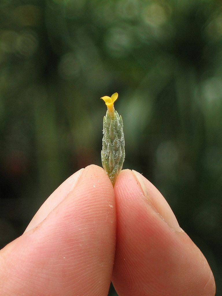 Tillandsia bryoides, in cultivation at the Botanical Garden of Heidelberg, Germany.